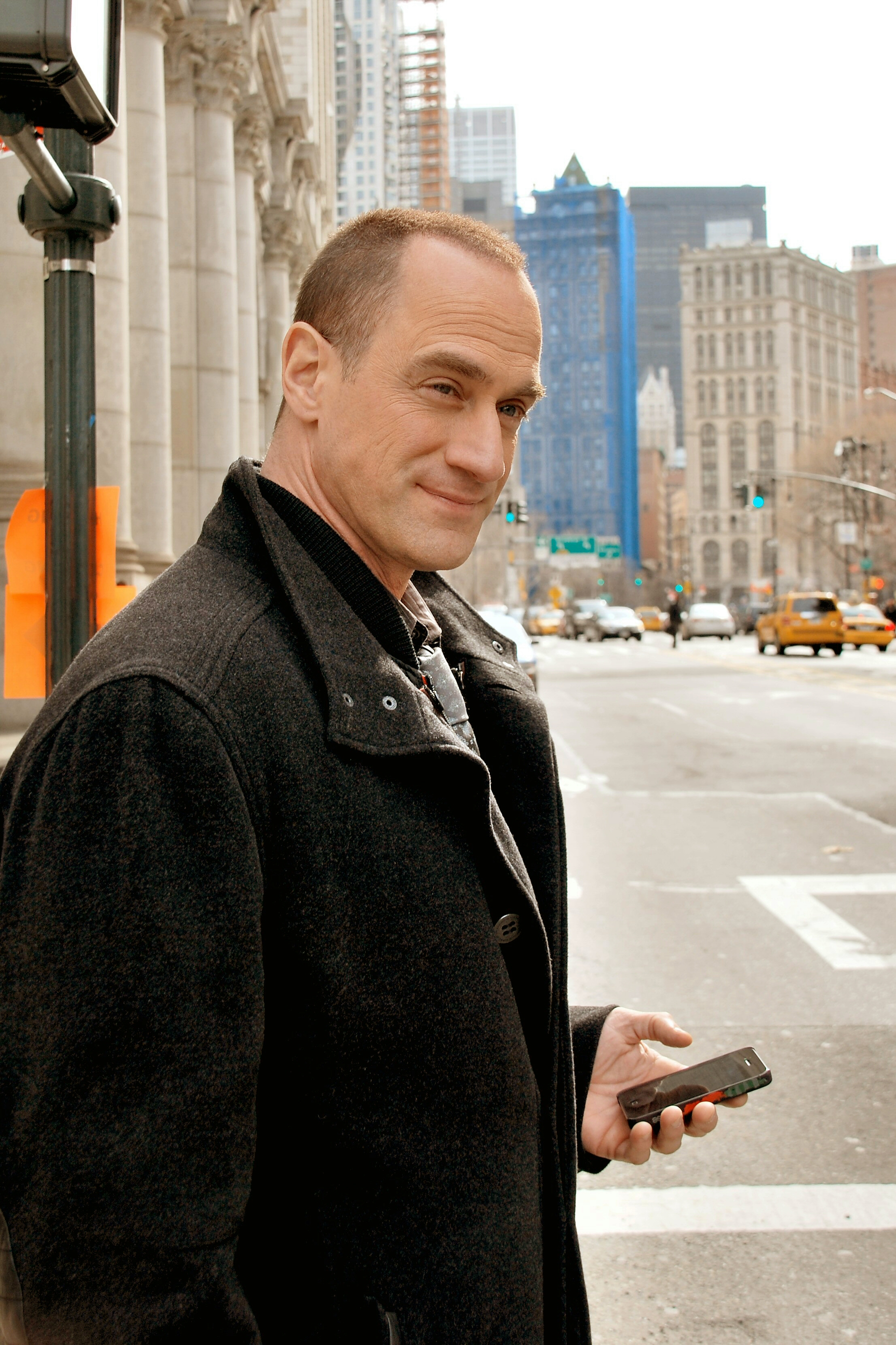 Christopher Meloni near the Civic Center in New York City between takes of Law & Order: Special Victims Unit.